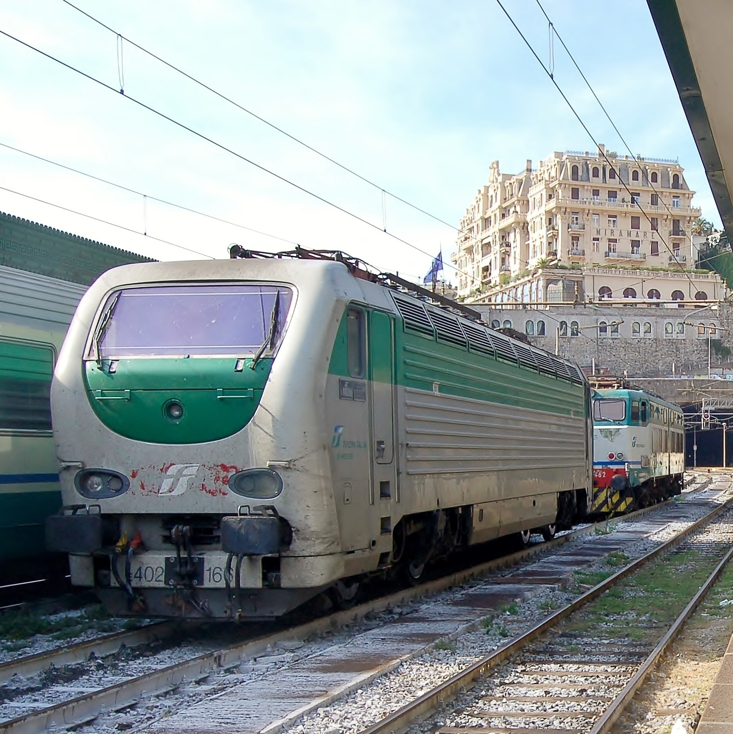 Trenitalia electric locomotive E.402.166 at Genova Piazza Principe, Italy.